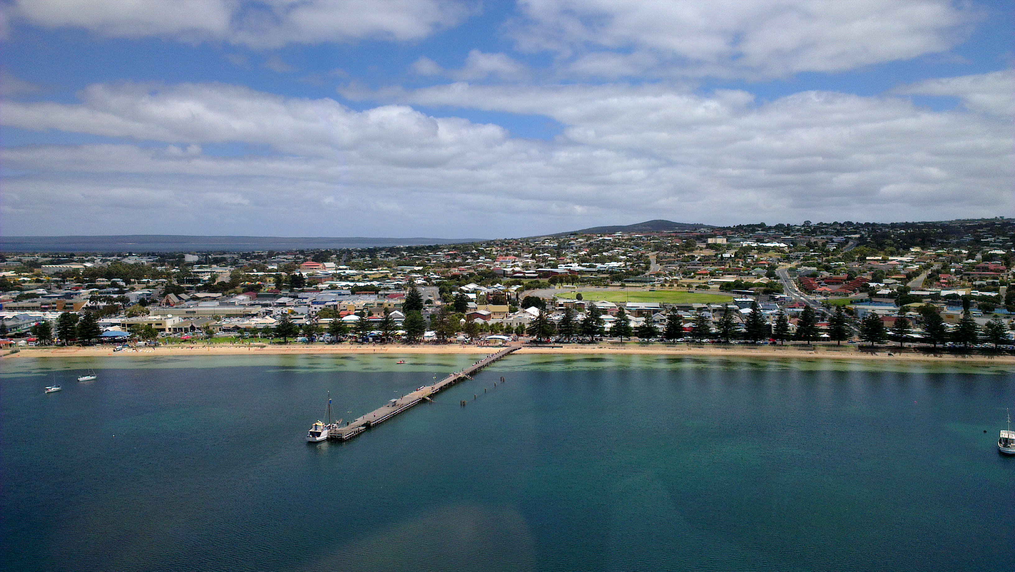 Picture of Port Lincoln